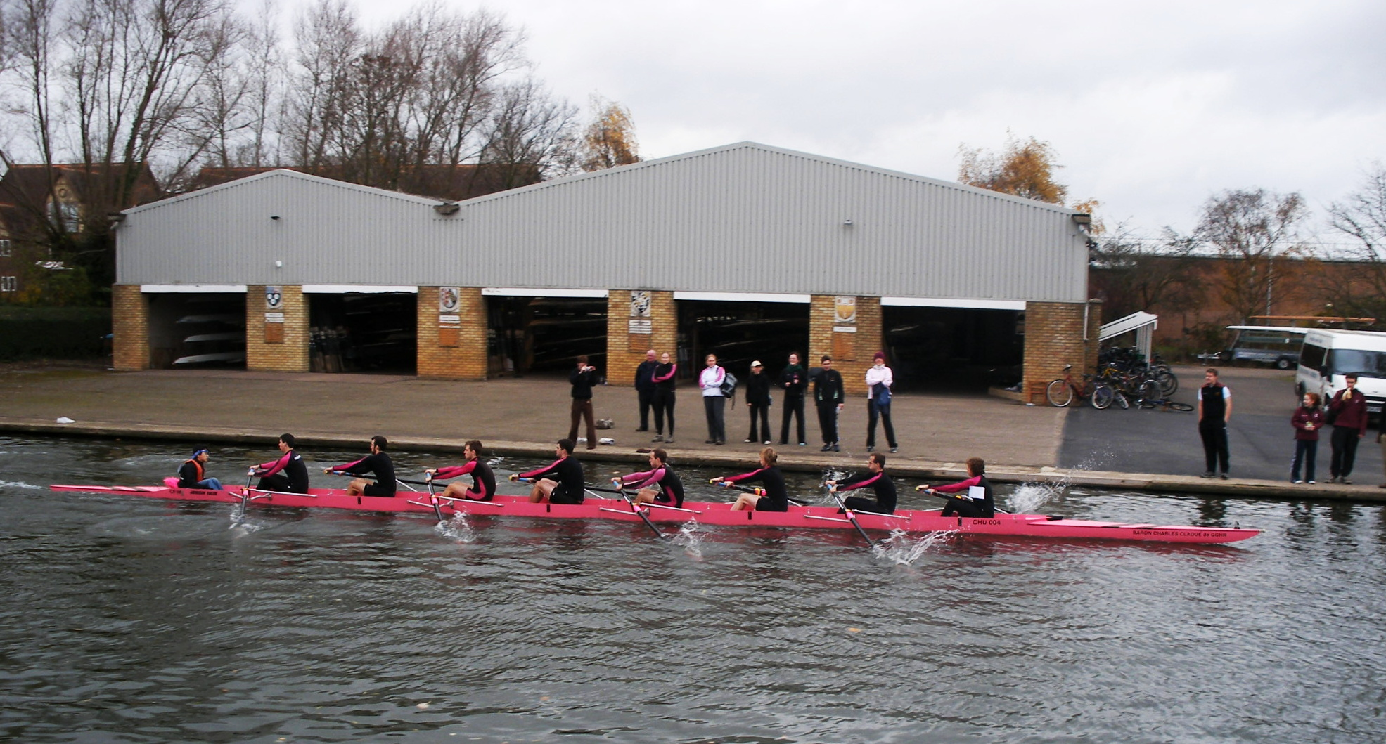 Churchill College first mens' boat passing their boathouse on the River Cam during the Fairbairns Cup, November 2007.